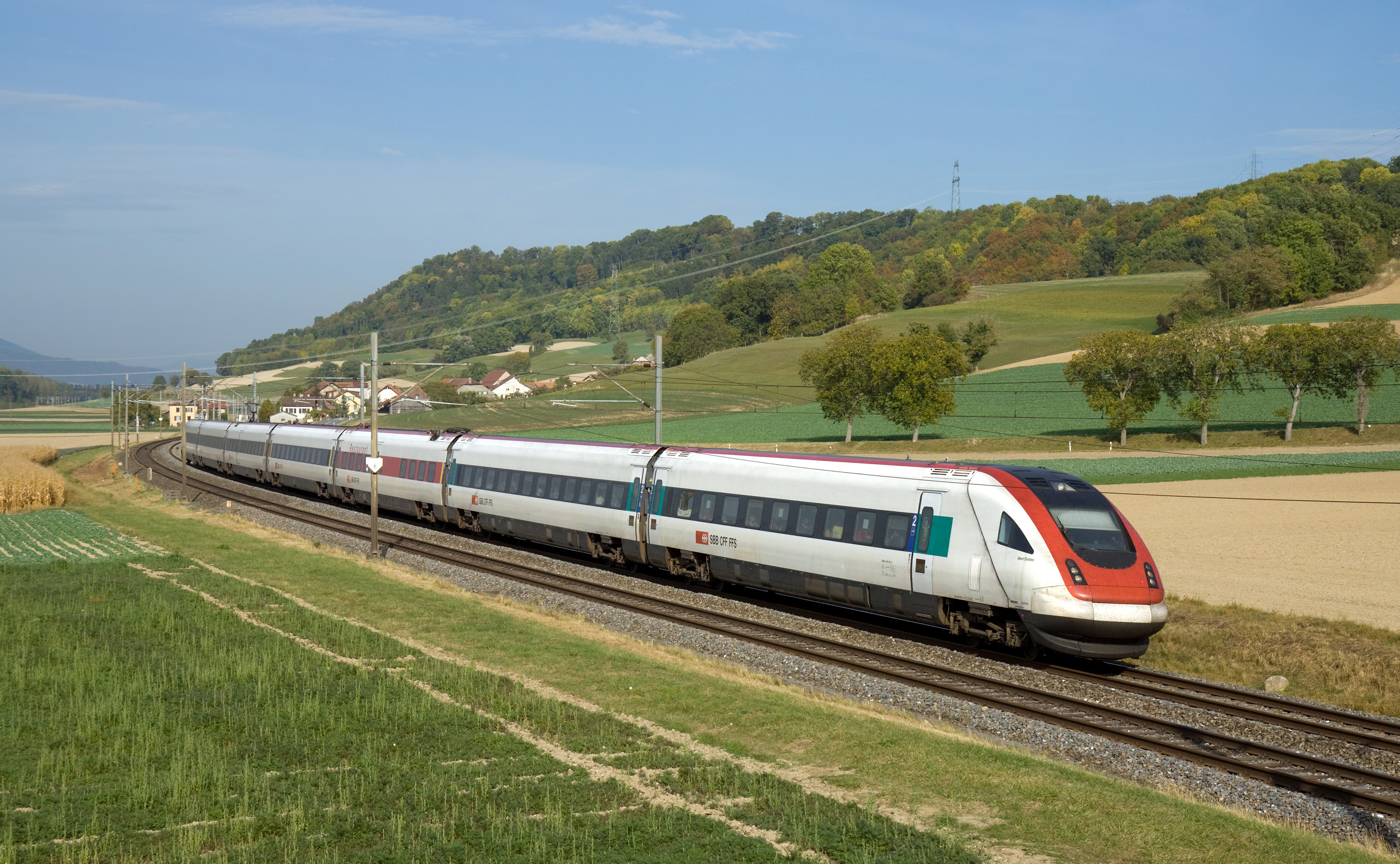 SBB ICN train on the Jura foot railway line near Essert-Pittet